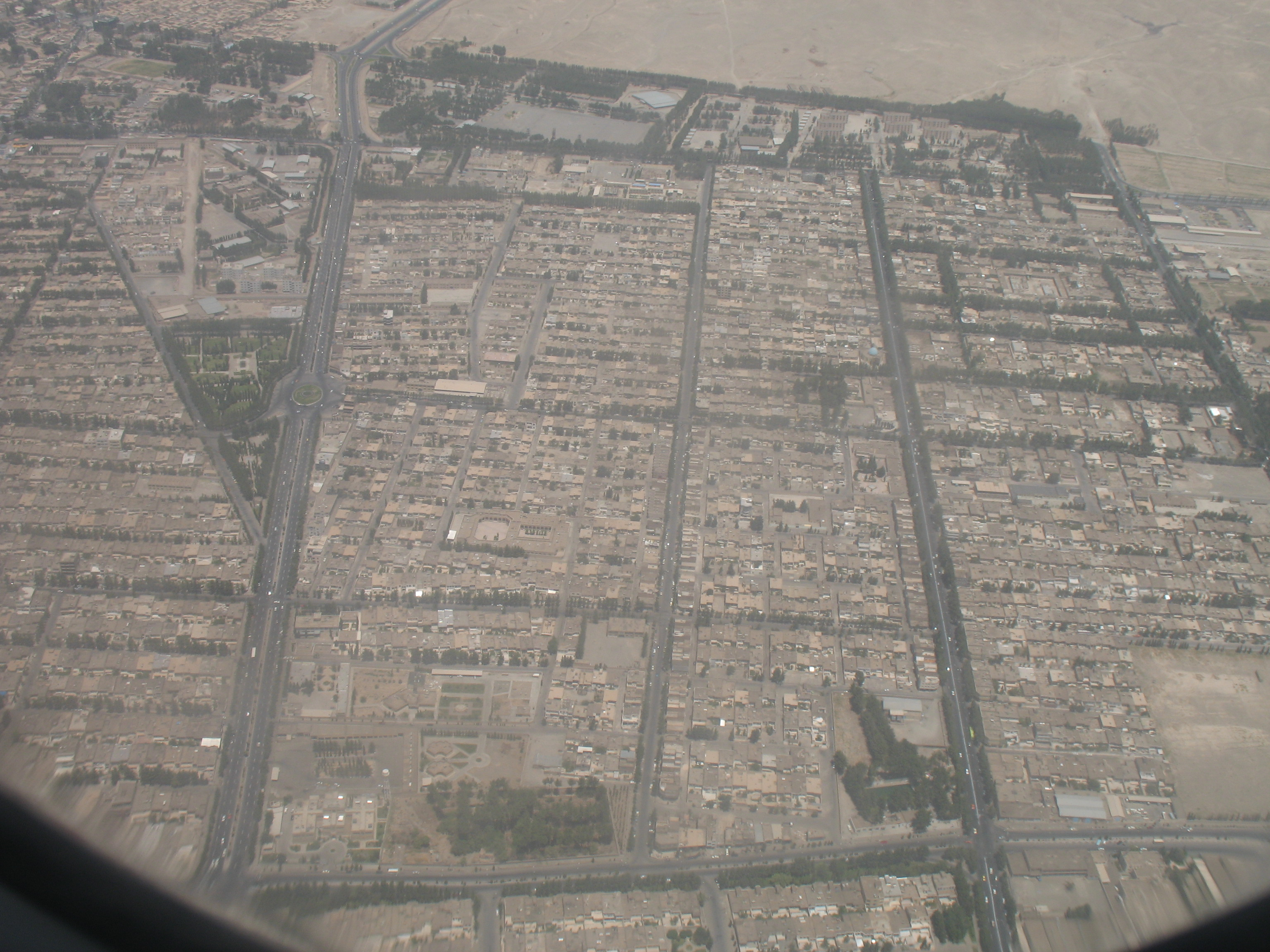 The East part of the city... ( Left to right: Pasdaran St., Adl St., Moallem St. and Ghafari St. ).... I took the photo while visiting Birjand.